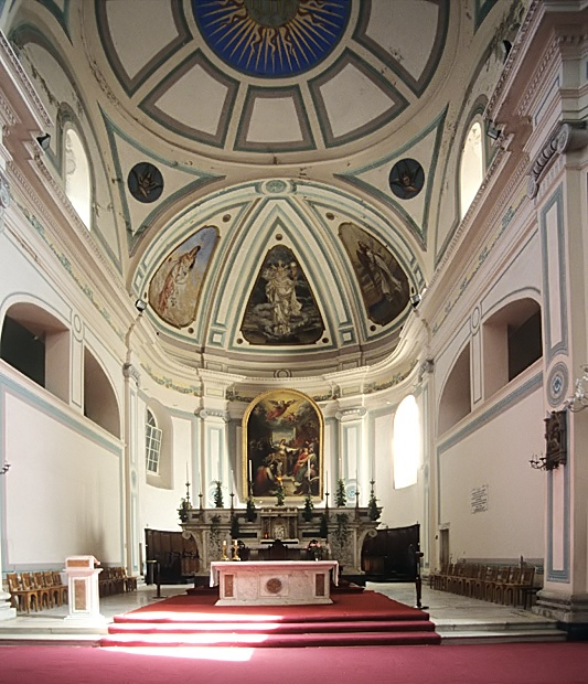 Inside the cathedral of St. Catherine, Alexandria, Egypt